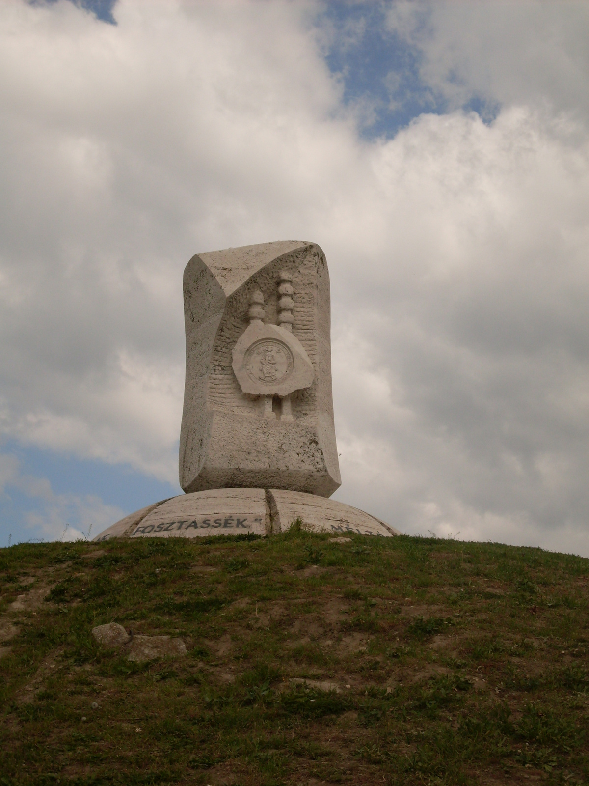 The memorial of the Golden Bull of 1222 issued by King Andrew II of Hungary. Székesfehérvár, Hungary